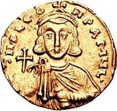 Leo III the Isaurian AV Solidus. c737-741 AD. Constantinople mint. d NO LEO-N PA MUL, crowned facing bust of Leo, holding globus cruciger & akakia